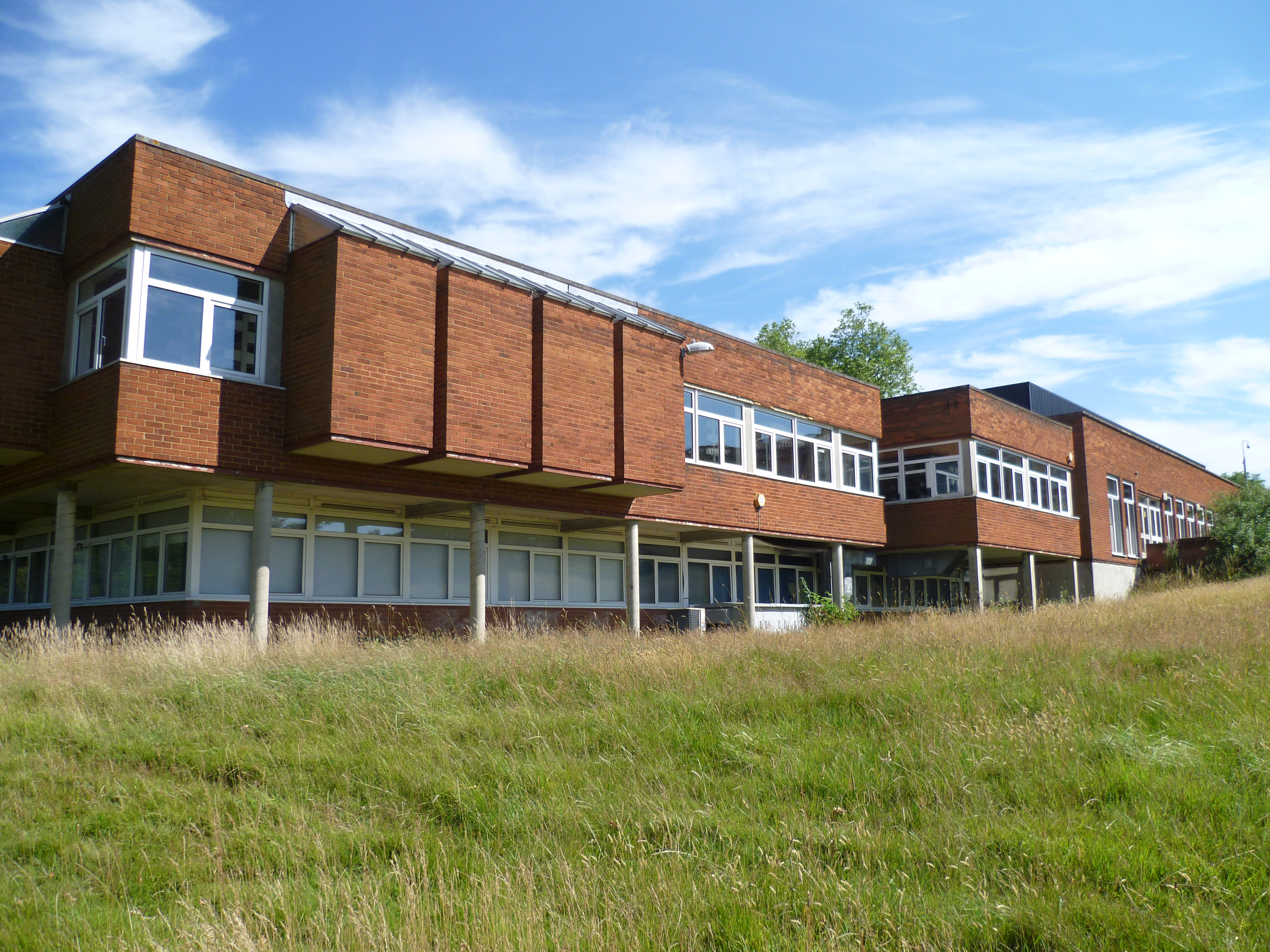 Trent Park ancillary buildings